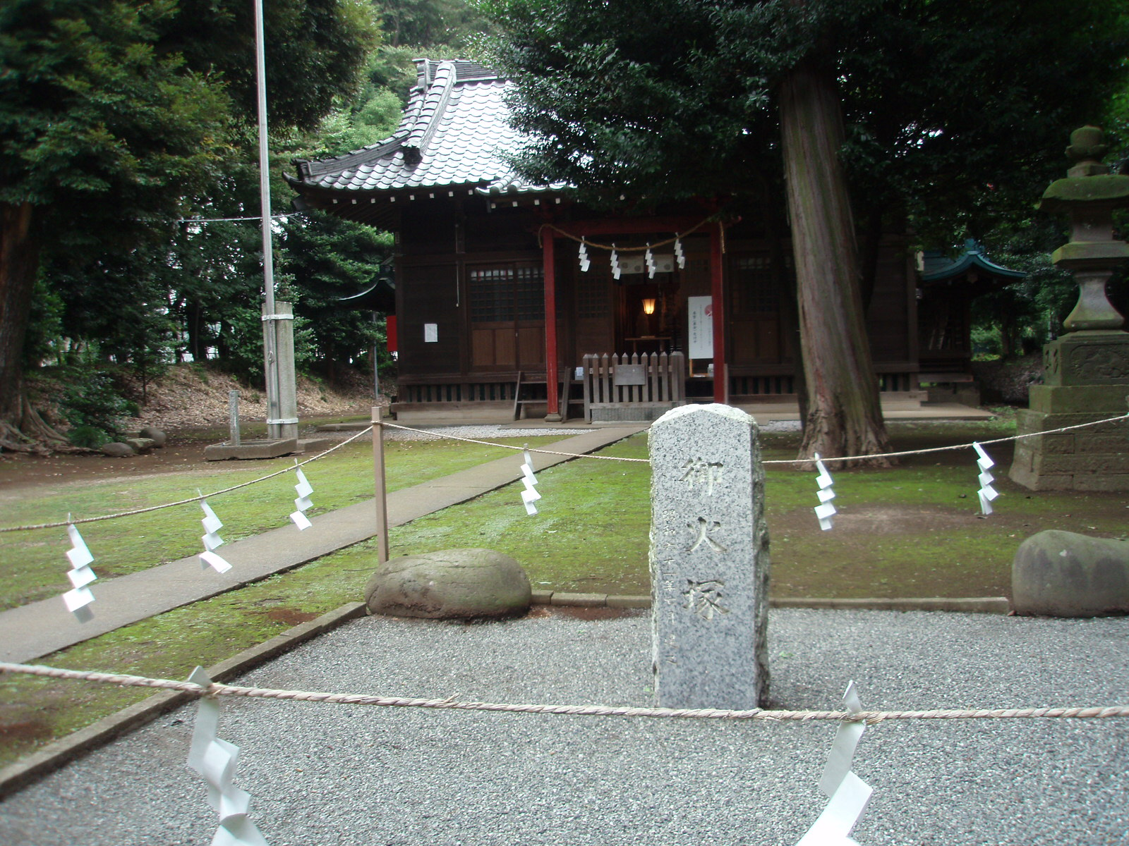 Nakayama Jinjya (Shrine) at Saitama Prefecture in Japan.